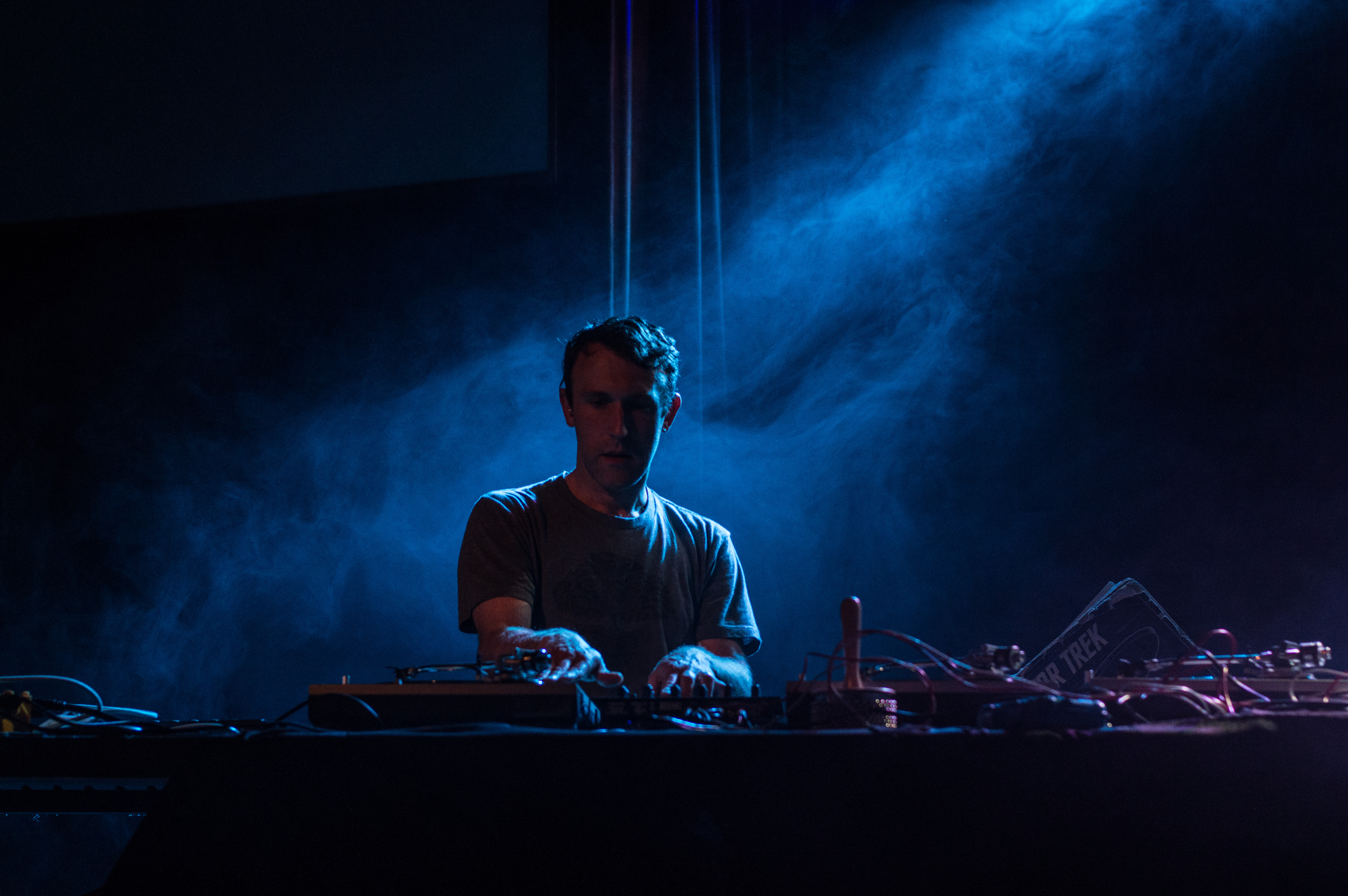 RJD2 performing at Moogfest 2014